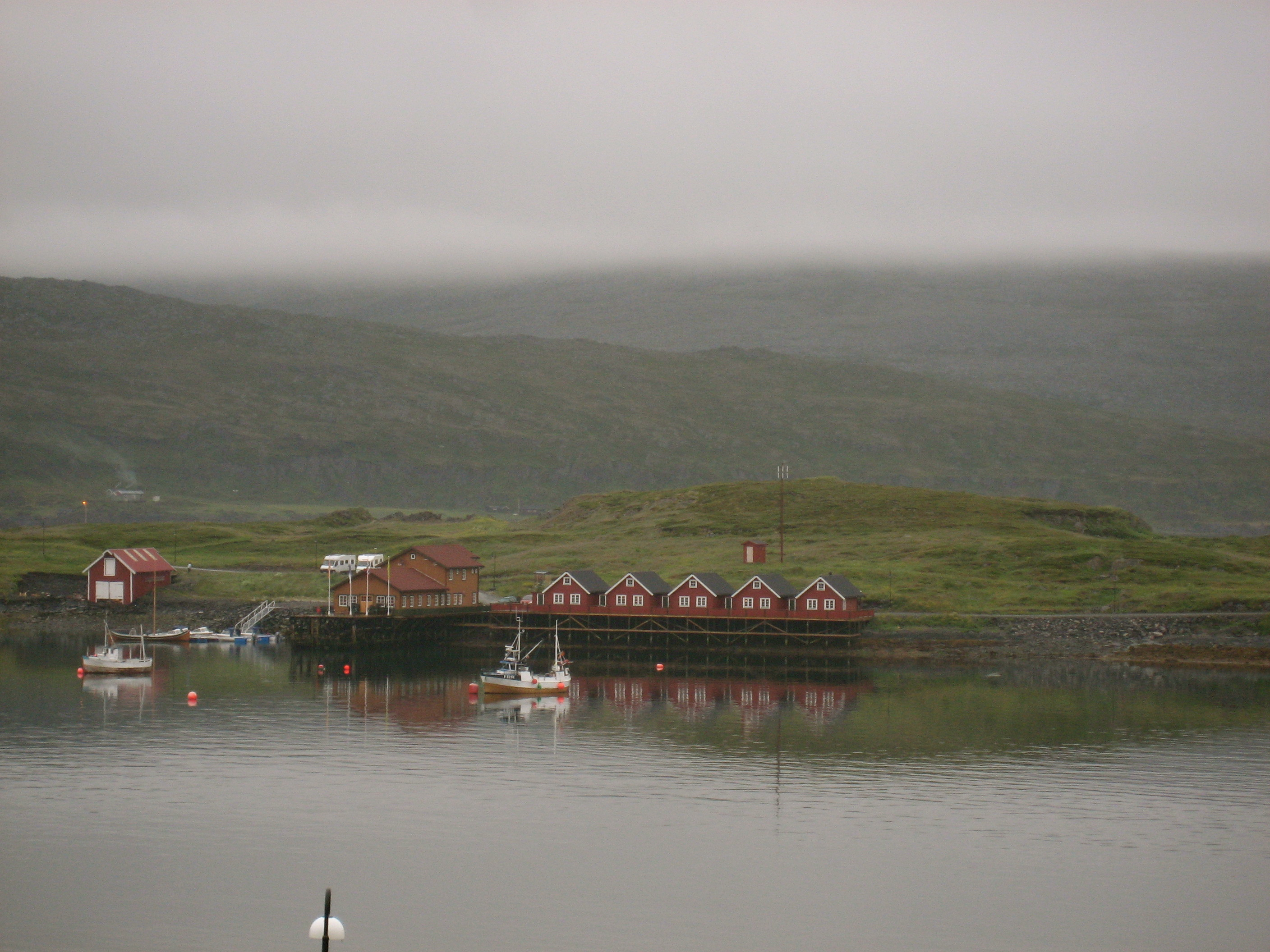 Mehamn in Finnmark, Norway.